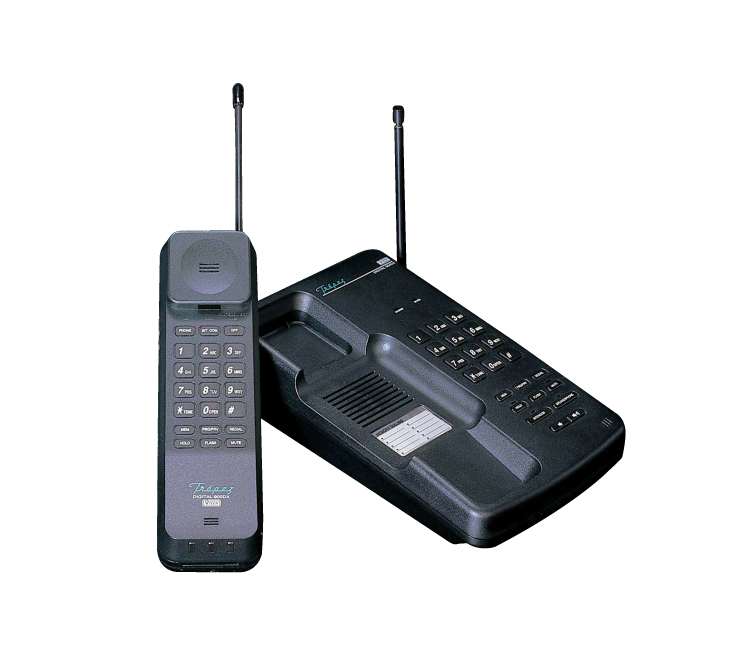 The world's first 900MHz cordless phone